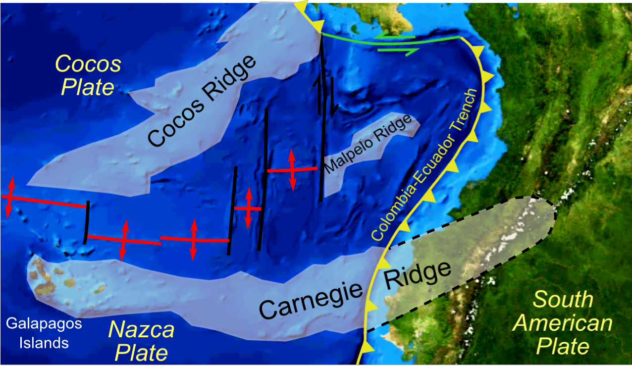 Location of oceanic ridges and plate boundaries on the northwestern edge of South America based on a screenshot from NASA World Wind software - outlines taken from Gutscher et al. 1999 note that some workers favour a much smaller degree of subduction of the Carnegie Ridge.